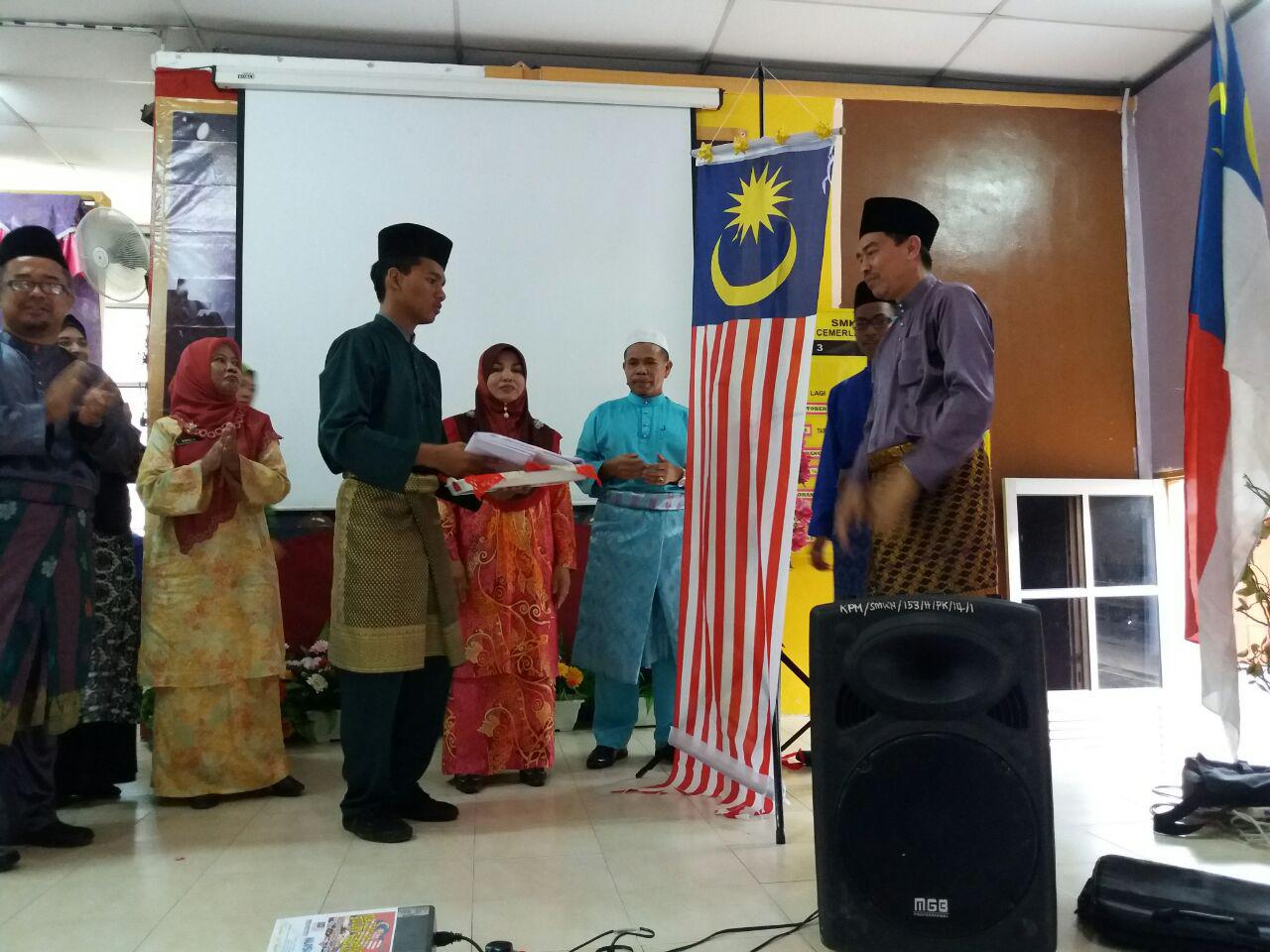 Pelancaran Merdeka 6